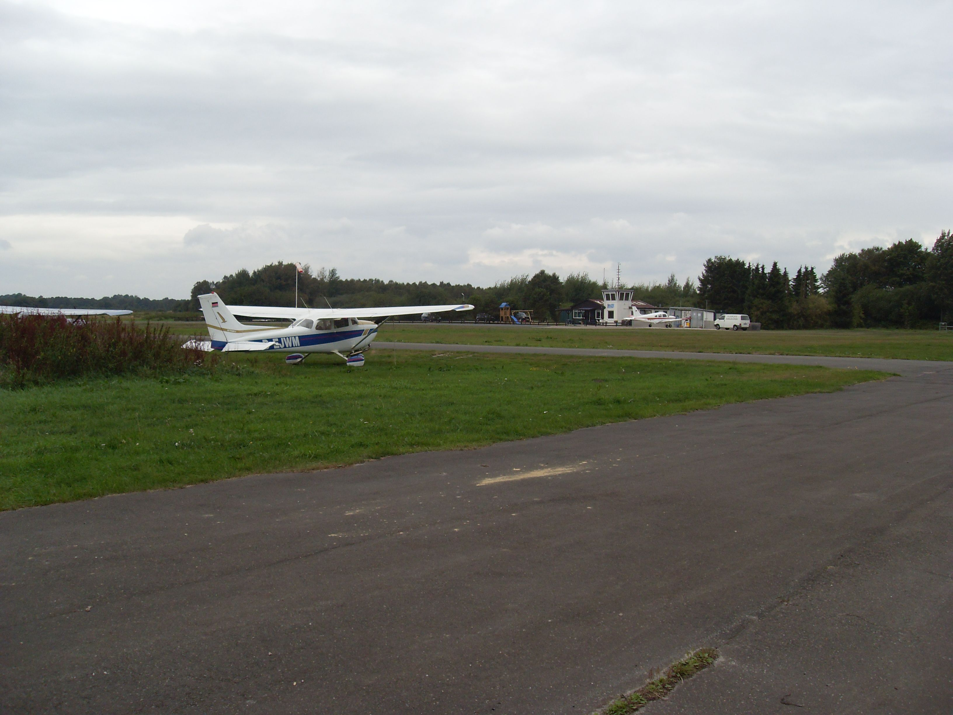 Airport Karlshöfen